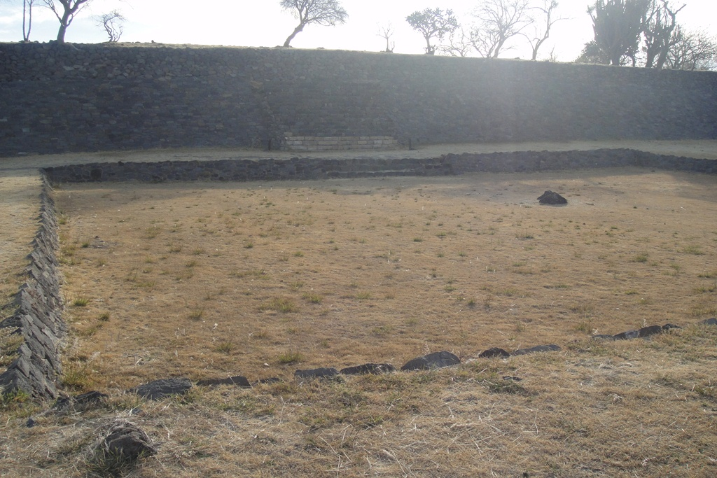 Peralta Main Structure External Patio 1